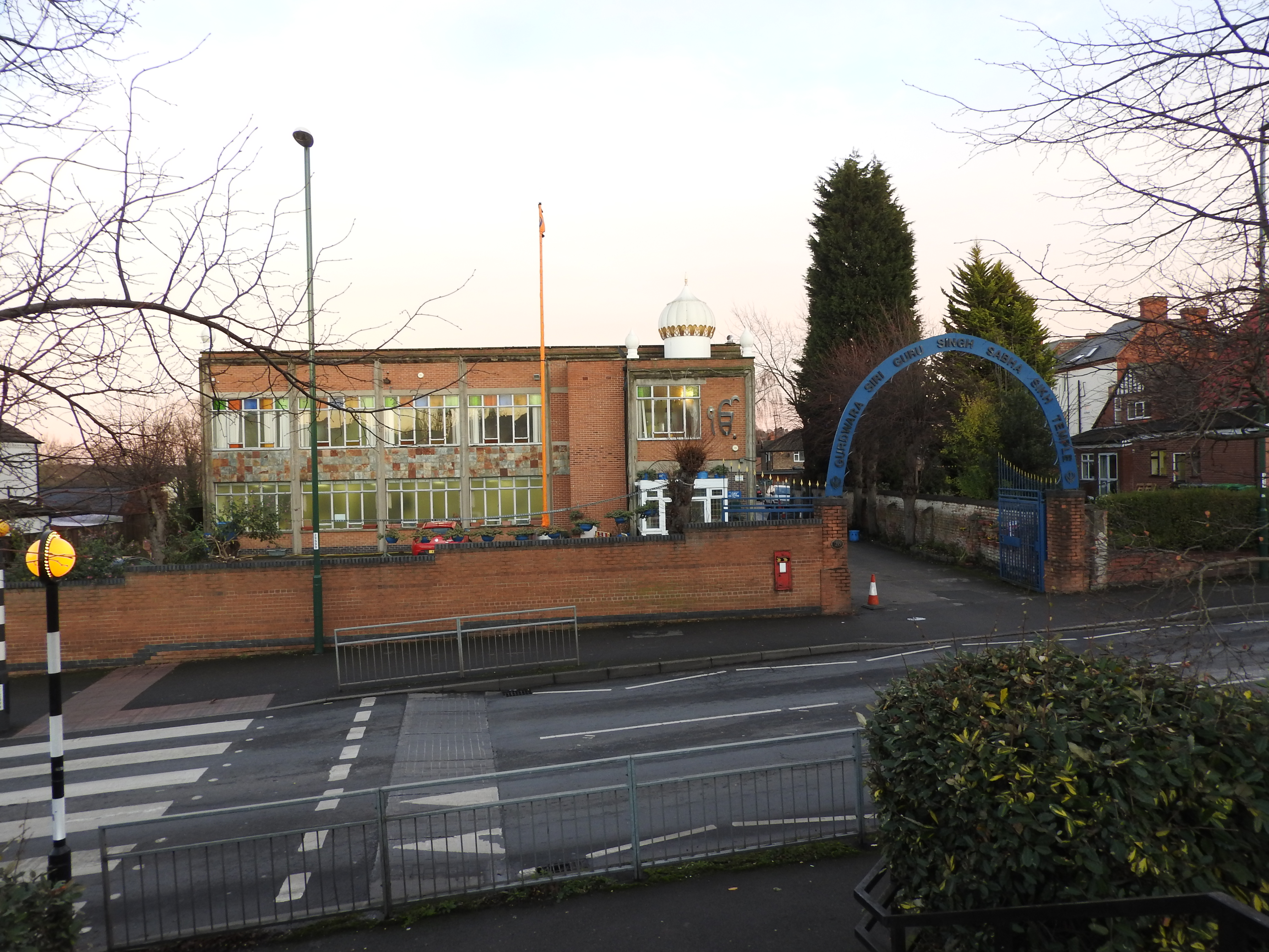 Gurdwara in Nottingham